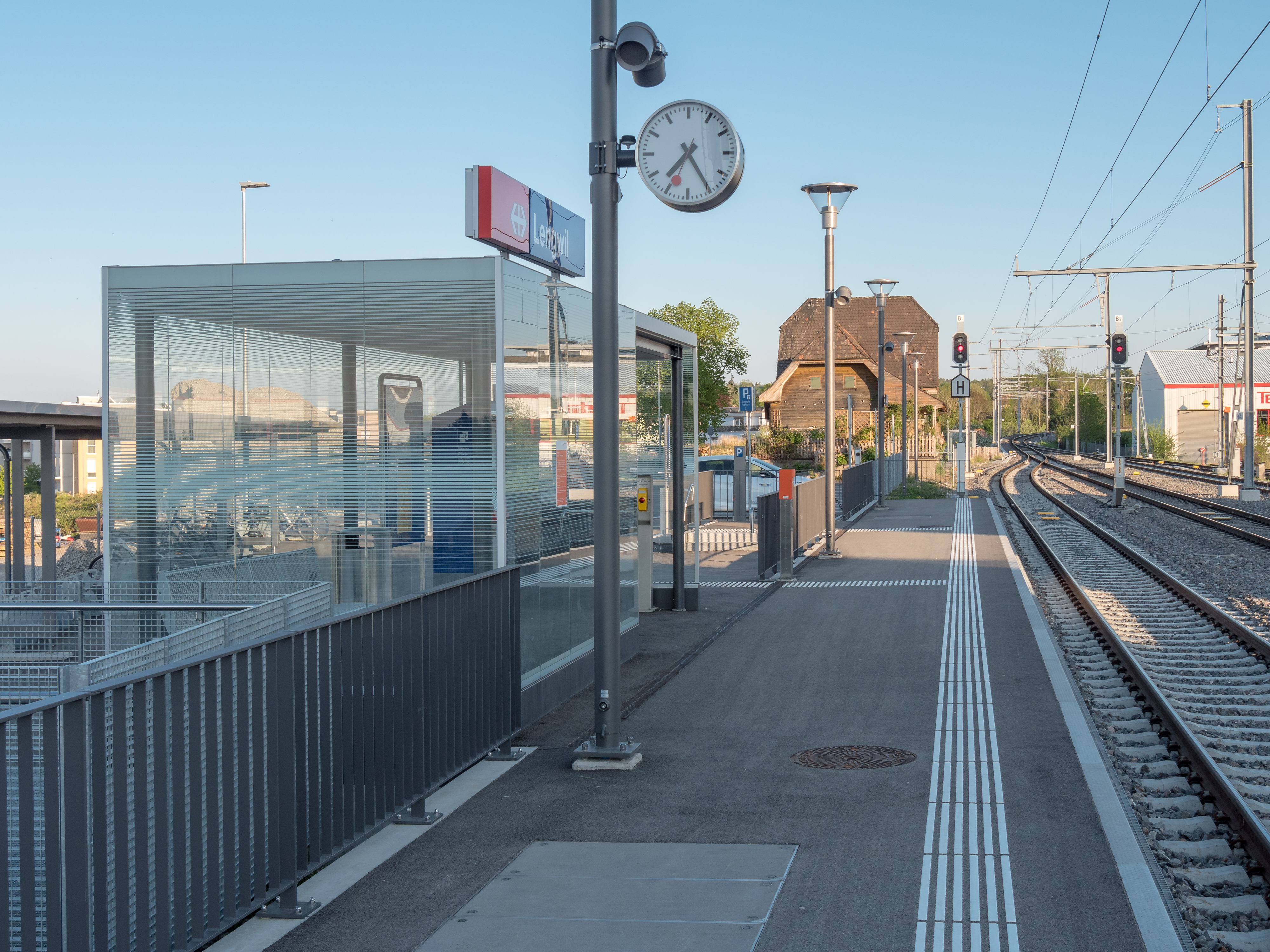 New train stop Lengwil and the old railway station in the background.